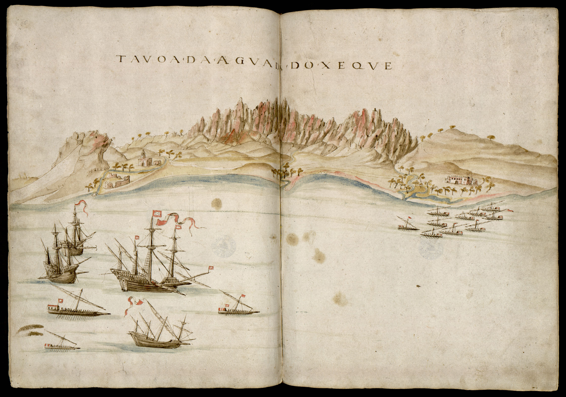 Portuguese Armada at Socotra - 1541, from the Routemap of the Red Sea, depicted by João de Castro during the Portuguese expedition to Suez - Egypt, in 1541.